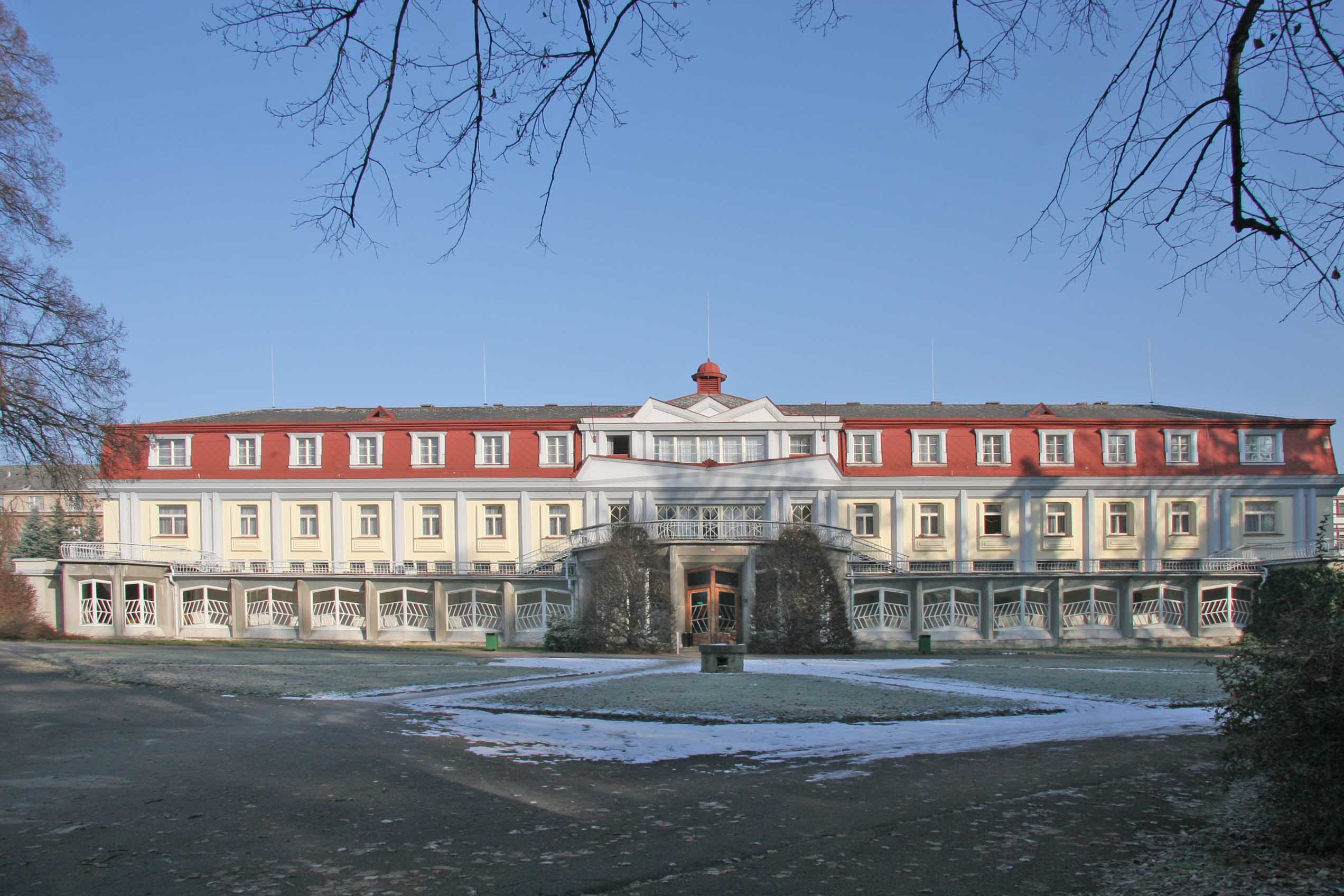 Spa pavillion by Josef Gočár in Lázně Bohdaneč, Czech Republic.